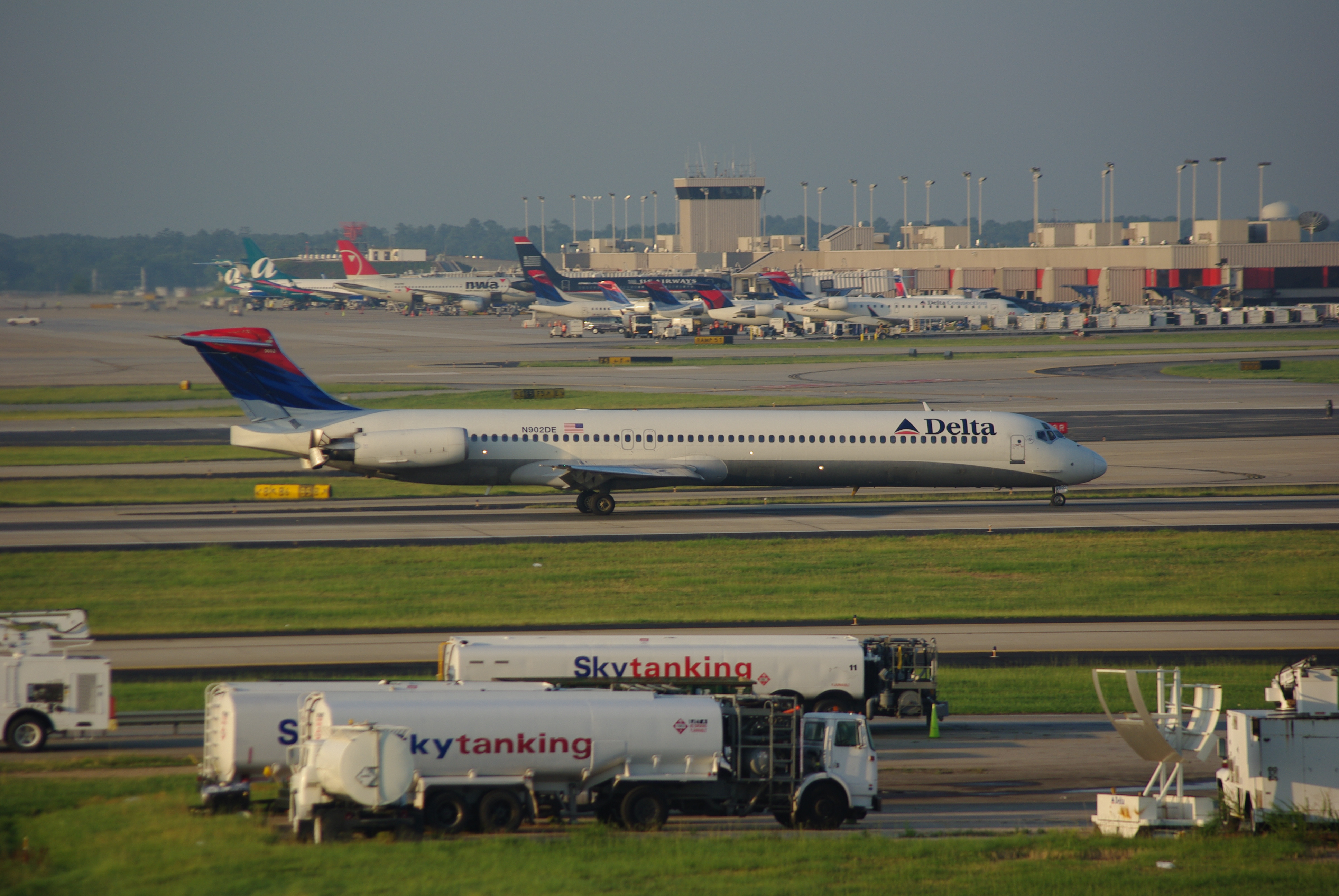 Hartsfield-Jackson Atlanta International Airport. Taken from balcony of the Atlanta Renaissance Concourse Hotel.